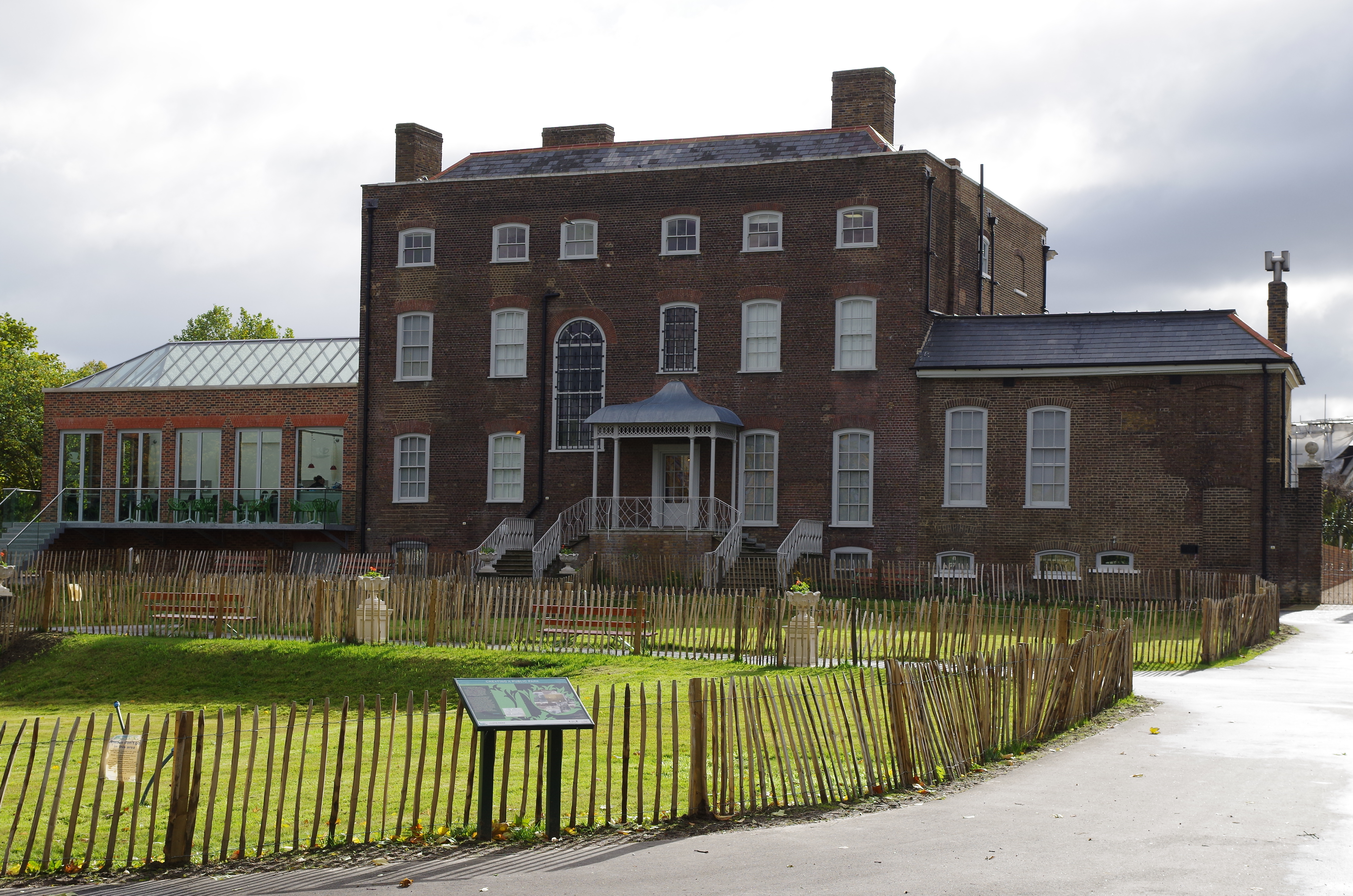 William Morris Gallery, Walthamstow London E17, view of the rear showing new extension.